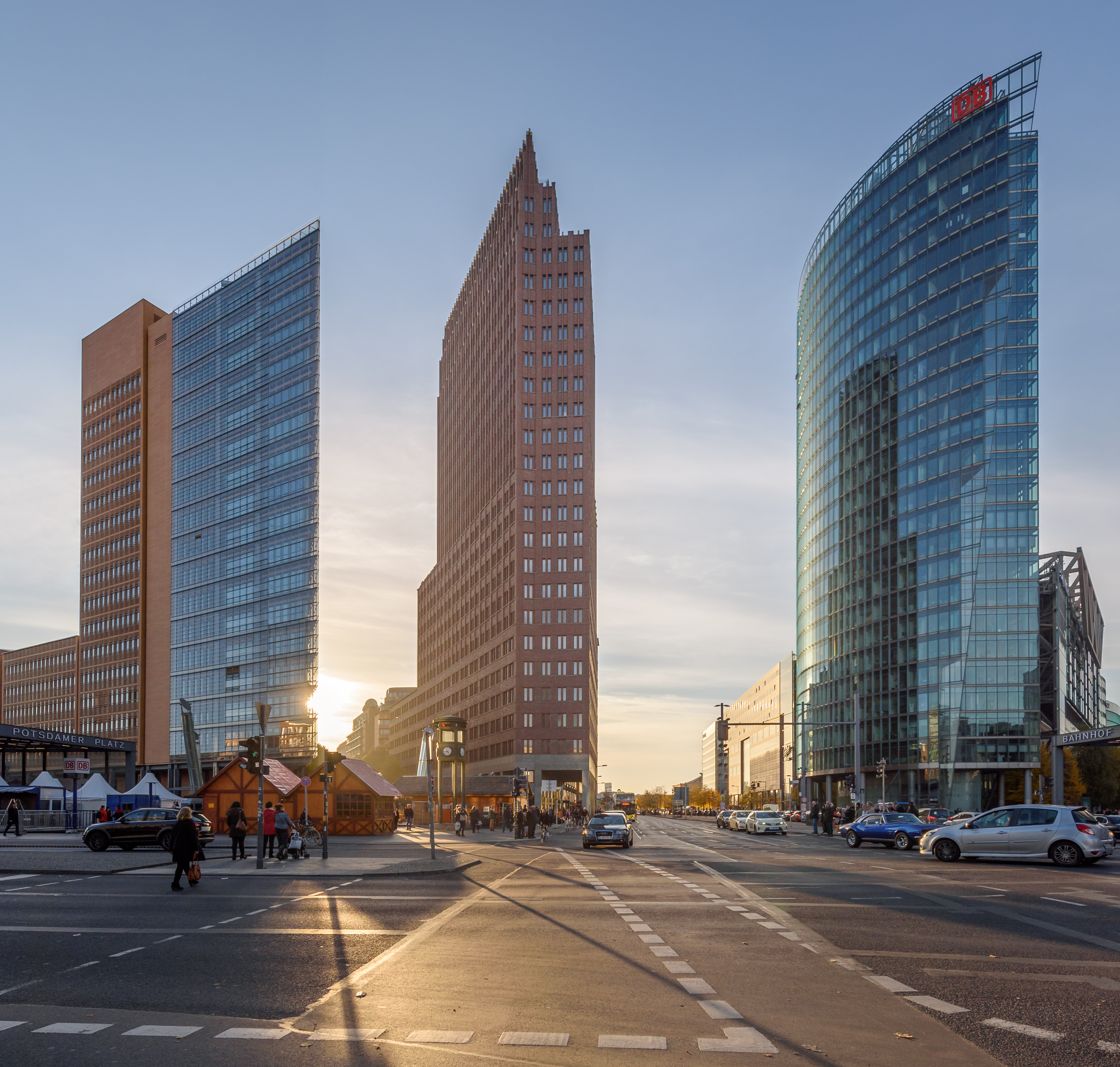 High-rises at Potsdamer Platz in Berlin in backlight: Kollhoff-Tower, Forum Tower and Bahntower (from left)